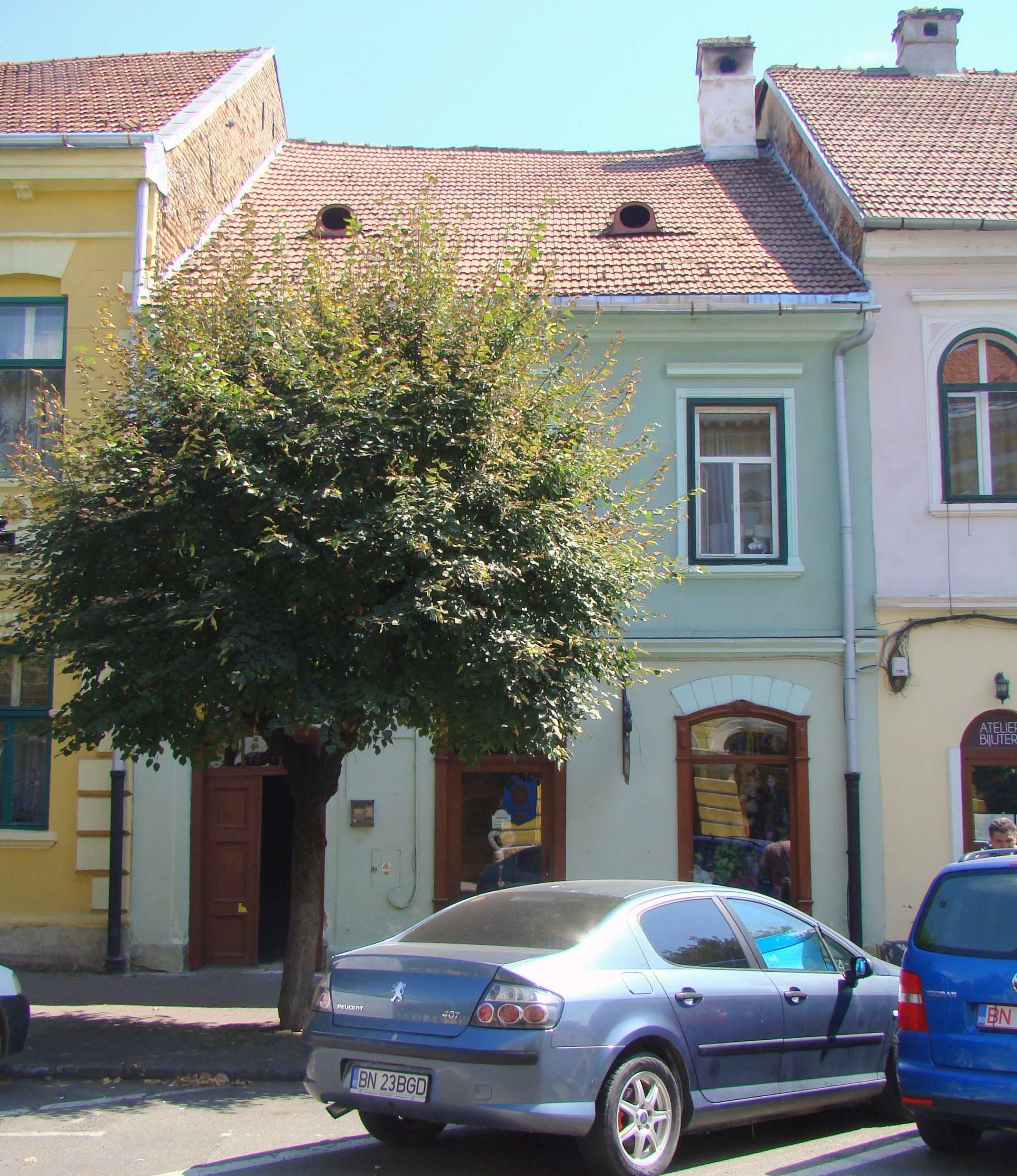 House, historic monument, in Bistrița, Gheorghe Șincai street 13